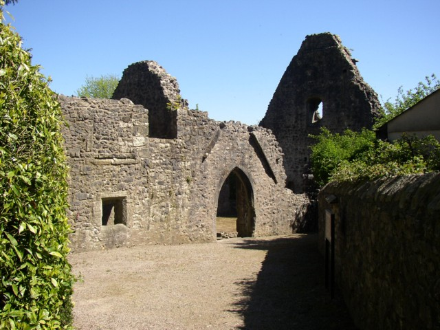 Main entrance to the Old Rectory, Warton. This view shows the large pointed-arched main entrance doorway, with evidence of a former porch. The gable-end is impressively large. Pevsner states that there is also a small building of about 1300, with an upper flor window with cusped Y-tracery, at the rear of the adjacent modern rectory.